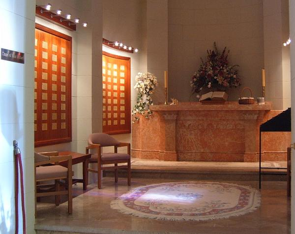 Chapel of St Michael, within the main Chapel of the Victoria Police Academy, Glen Waverley, in the eastern suburbs of Melbourne, Victoria, Australia.